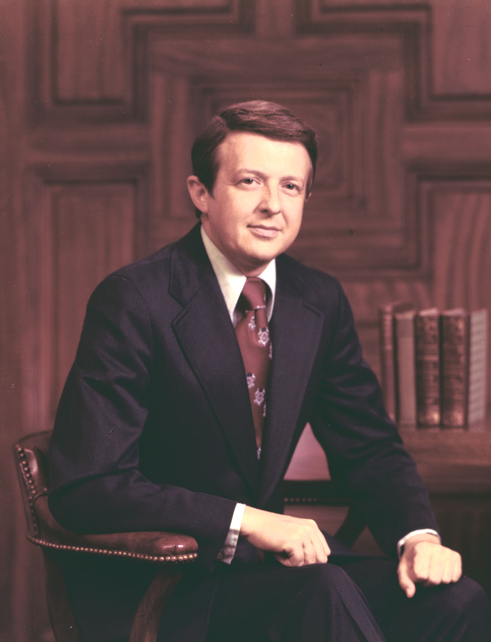 James Eubert Holshouser, Jr., 1973 - 1977 From the General Negative Collection, State Archives of North Carolina, Raleigh, NC.